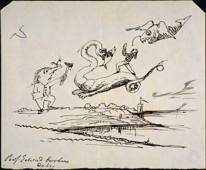 "Gideon Mantell engaged in battle with fantastic flying dinosaurs on the English coastline," by Prof. Edward Forbes, ink on paper drawing, part of a scrapbook. Drawing shows a frantic male figure shaking his geologist's hammer at a winged dragon-like creature and a winged fish. Courtesy of the Andrew Turnbull Library.